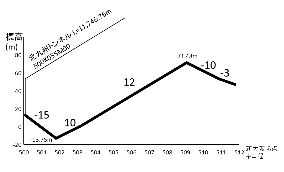 Cross sectional drawing of Kitakyushu tunnel on Sanyo Shinkansen with Japanese description. Number shows gradient of slope in permil for westbound trains (negative number represents downward slope)